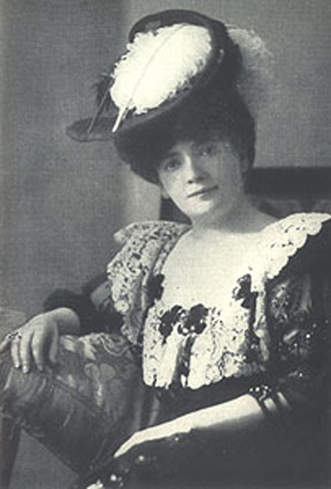 Tirodor Herzl\'s wife, Julie.